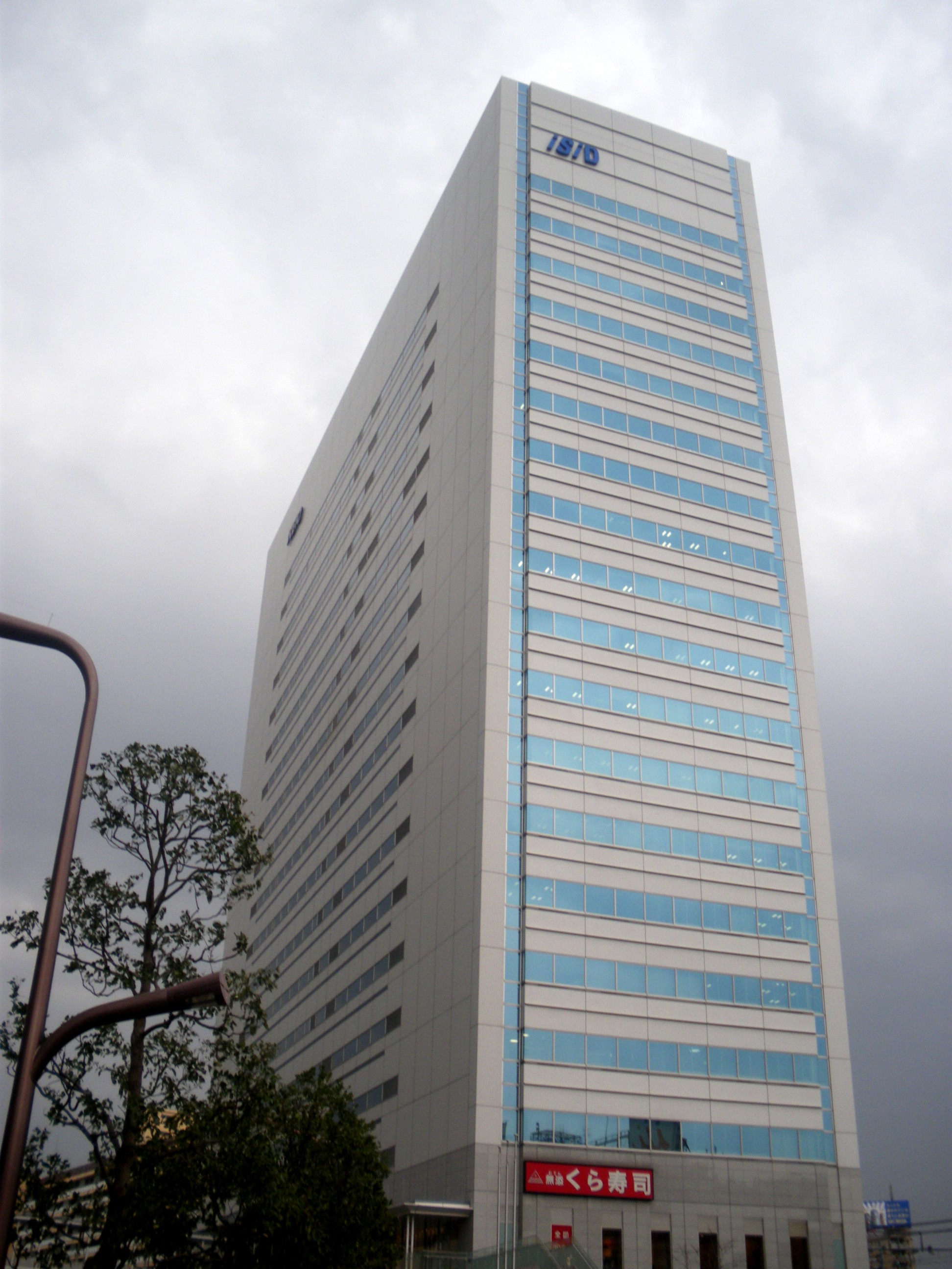 A photo of Keio Shinagawa Building at Shinagawa Grandcommons.Konan, Minato-ku,Tokyo,Japan.